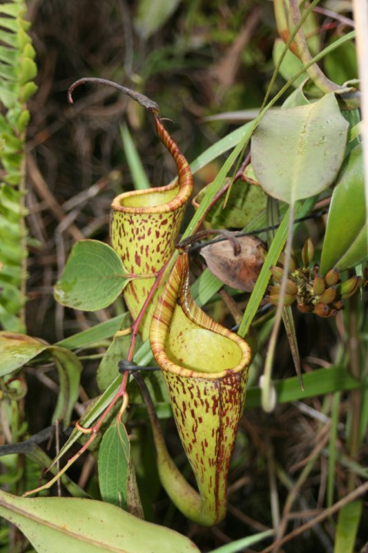 Upper pitchers of Nepenthes fusca from Mount Alab